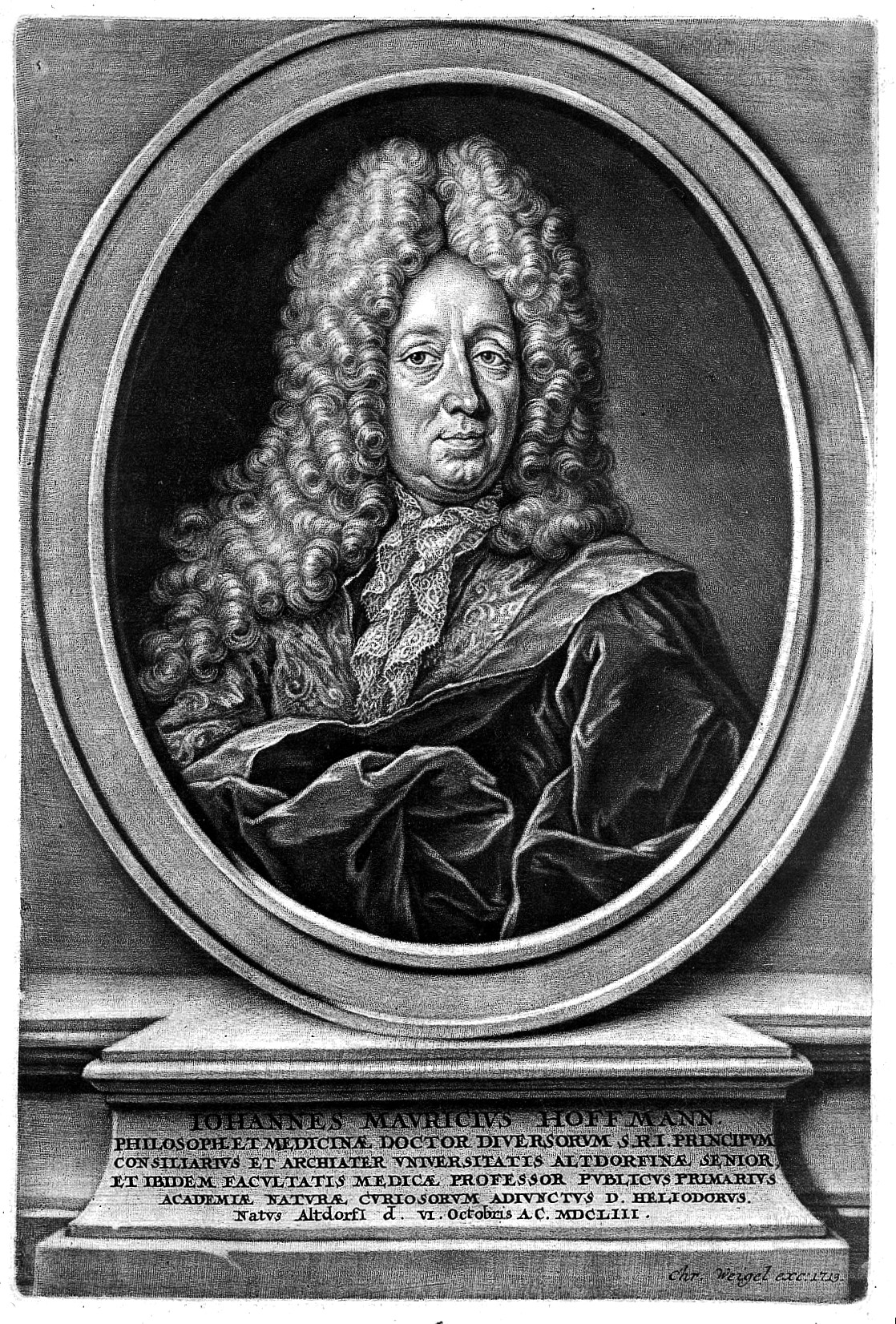 Portrait of Johann Moritz Hoffmann, physician at Altdorf and Ansbach. Wellcome Images Keywords: Johann Moritz Hoffmann; C. Weigel